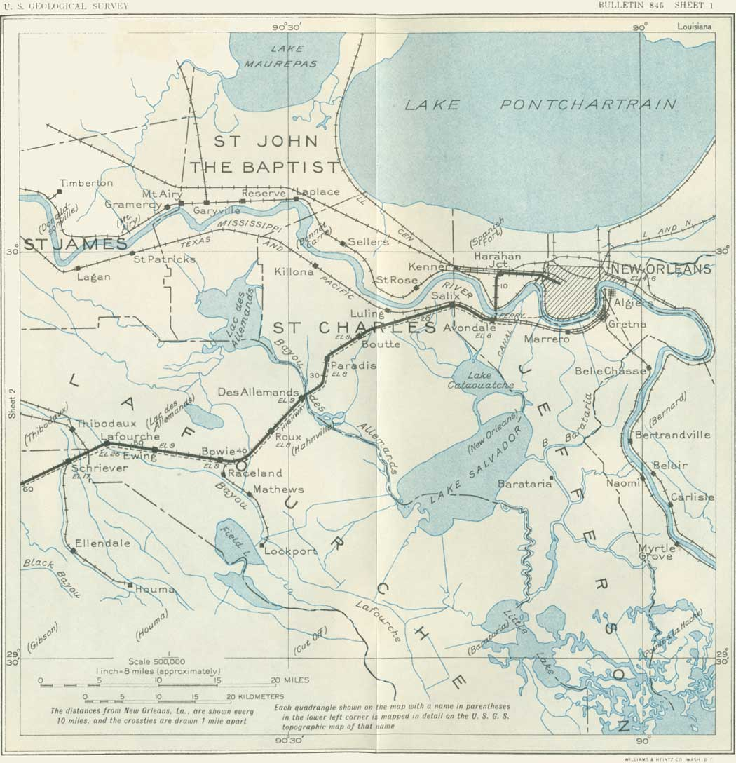 Map of portion of Southern Louisiana, 1933, New Orleans to Schriever Louisiana. Includes location of Houma, LaPlace, Raceland, and other communities in the area, rail lines, and bodies of water.